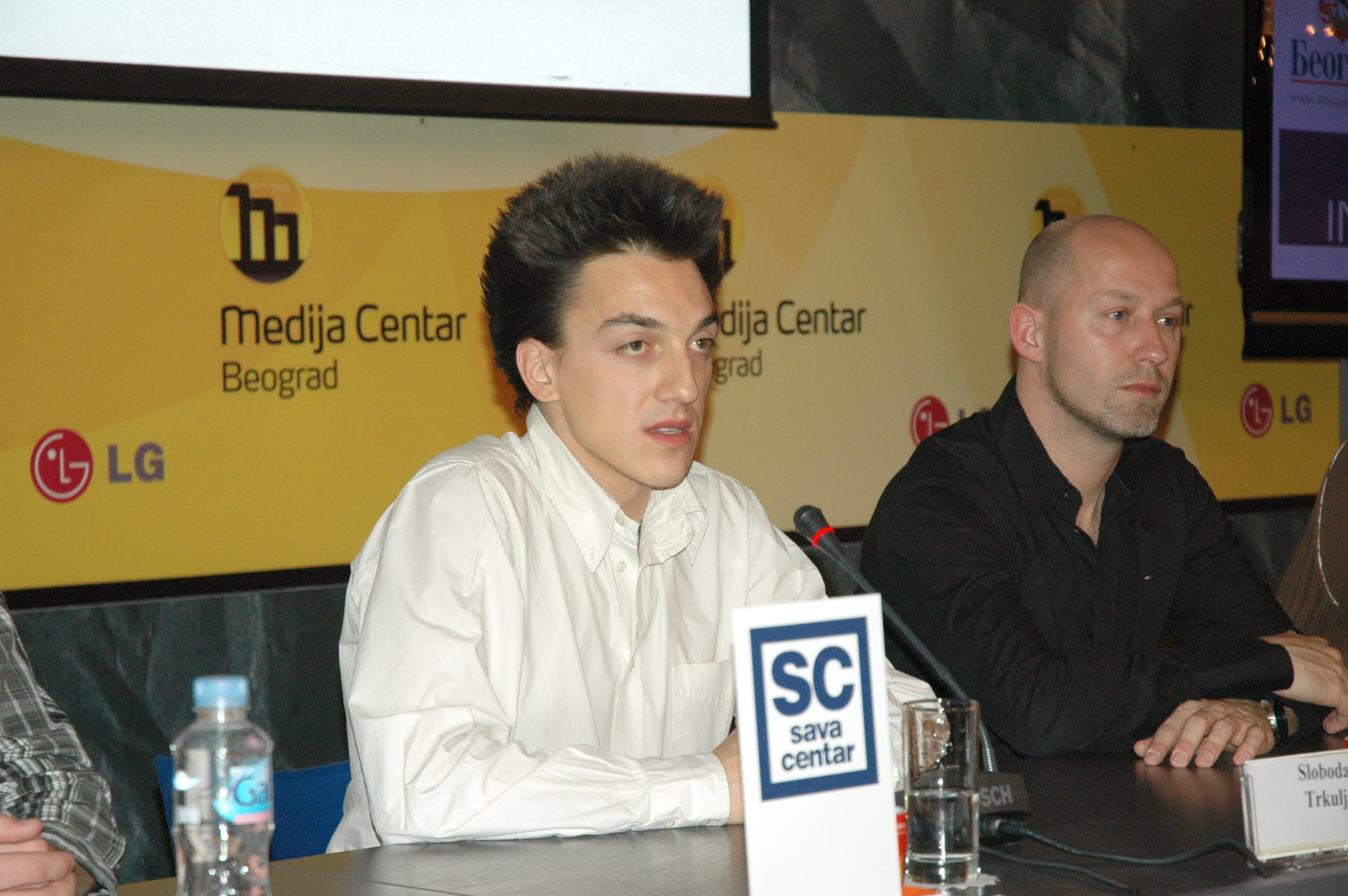 Slobodan Trkulja